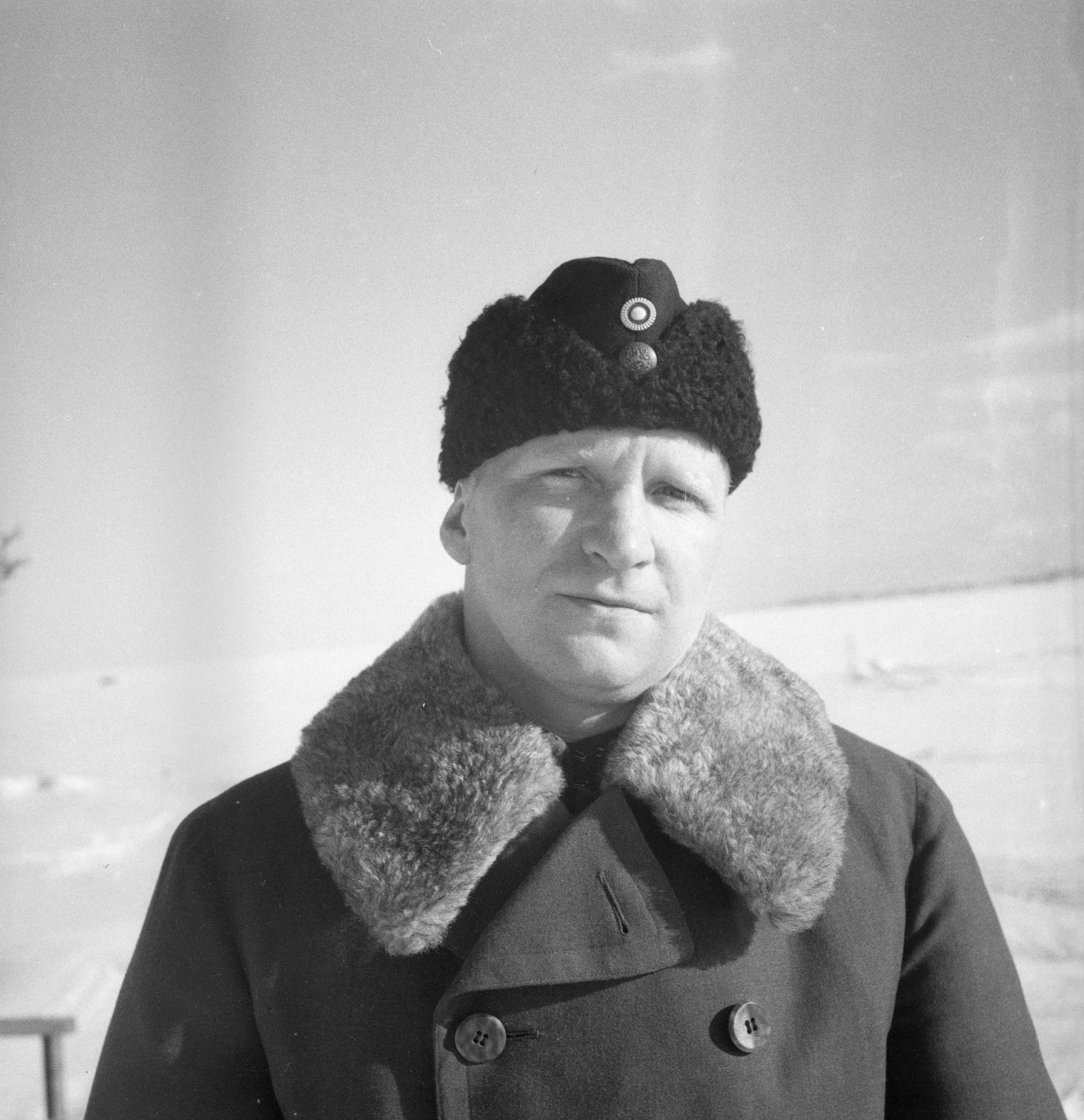 Photograph of the Finnish photographer Tuttu Jänis (1905–1980).